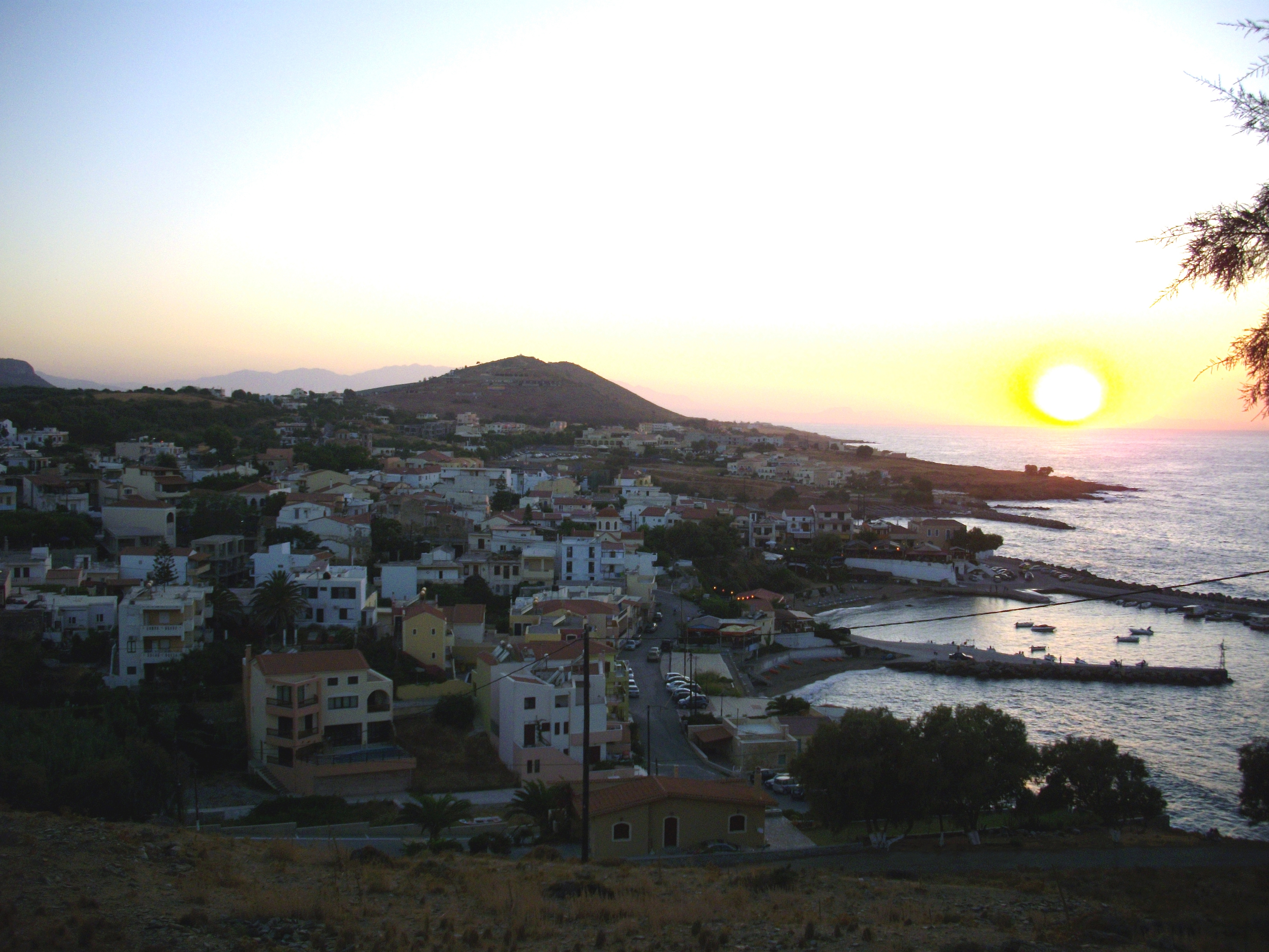 Panormo village at Rethymno prefecture, Crete